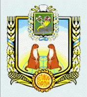 Coats of arms of Velykoburlutskyj raions